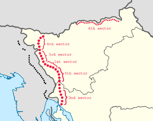 Sectors of rupnik defense lineSlovenščina: Sektorji rupnikove linijeSrpskohrvatski / српскохрватски: Sektori linije Rupnik